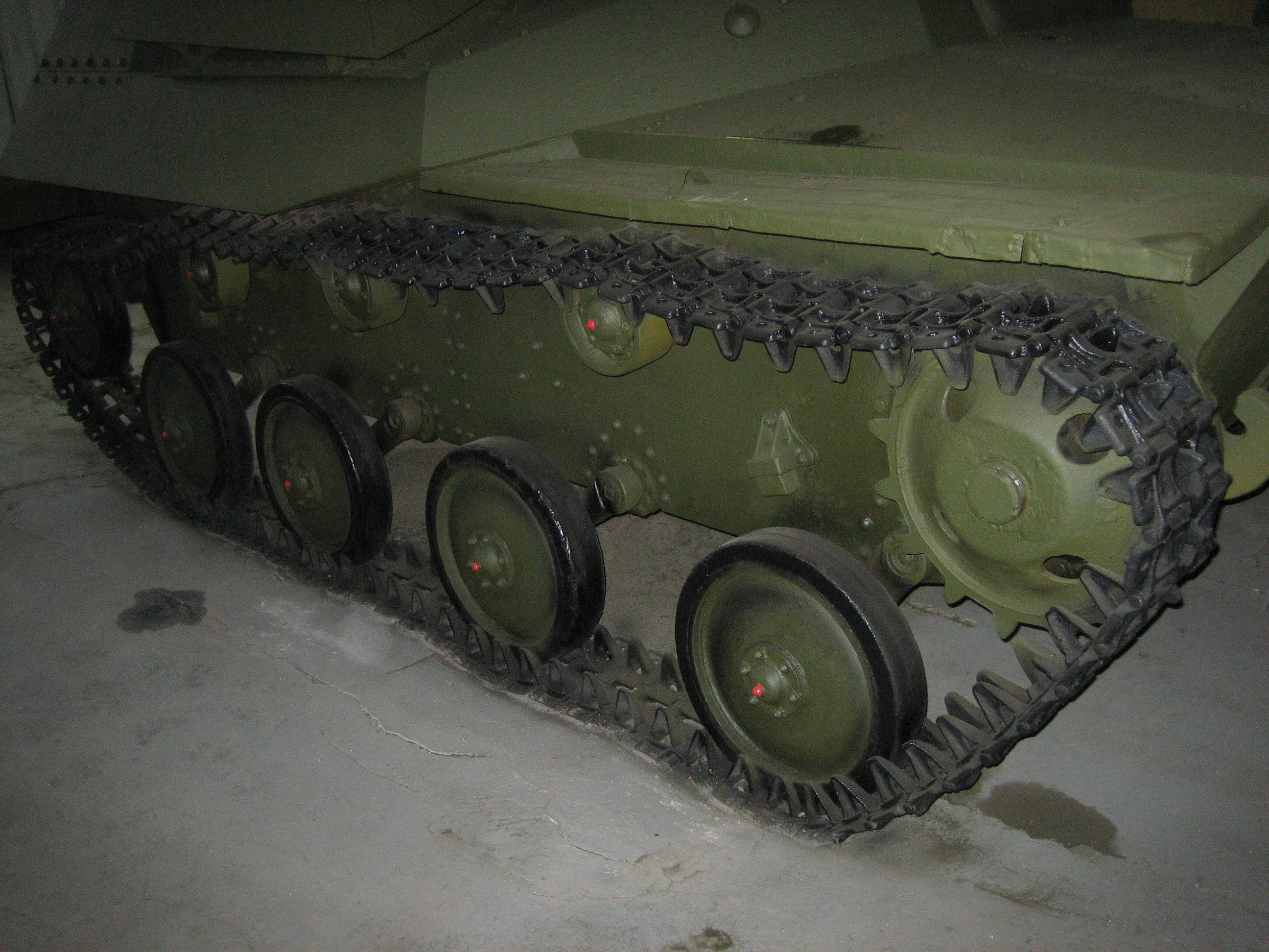 Soviet light infantry tank T-40, displayed in Kubinka Tank Museum. Photo taken on September 9, 2007. Source: Photo by me, User:Saiga20K.